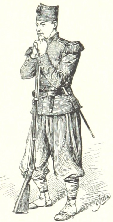 The uniform of the 83rd Pennsylvania Infantry, which fought in the American Civil War.